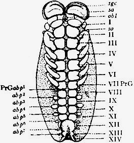 Embryo of scorpion, ventral view showing somites and appendages.sgc, Frontal groove.sa, Rudiment of lateral eyes.obl, Camerostome (upper lip).so, Sense-organ of Patten.PrGabp1, Rudiment of the appendage of the praegenital somite which disappears.abp2, Rudiment of the right half of the genital operculum.abp3, Rudiment of the right pecten.abp4 to abp7. Rudiments of the four appendages which carry the pulmonary lamellae.I to VI, Rudiments of the six limbs of the prosoma.VIIPrG, The evanescent praegenital somite.VIII, The first mesosomatic somite or genital somite.IX, The second mesosomatic somite or pectiniferous somite.X to XIII, The four pulmoniferous somites.XIV, The first metasomatic somite.(After Brauer, Zeitsch. wiss. Zool., vol. lix., 1895.)